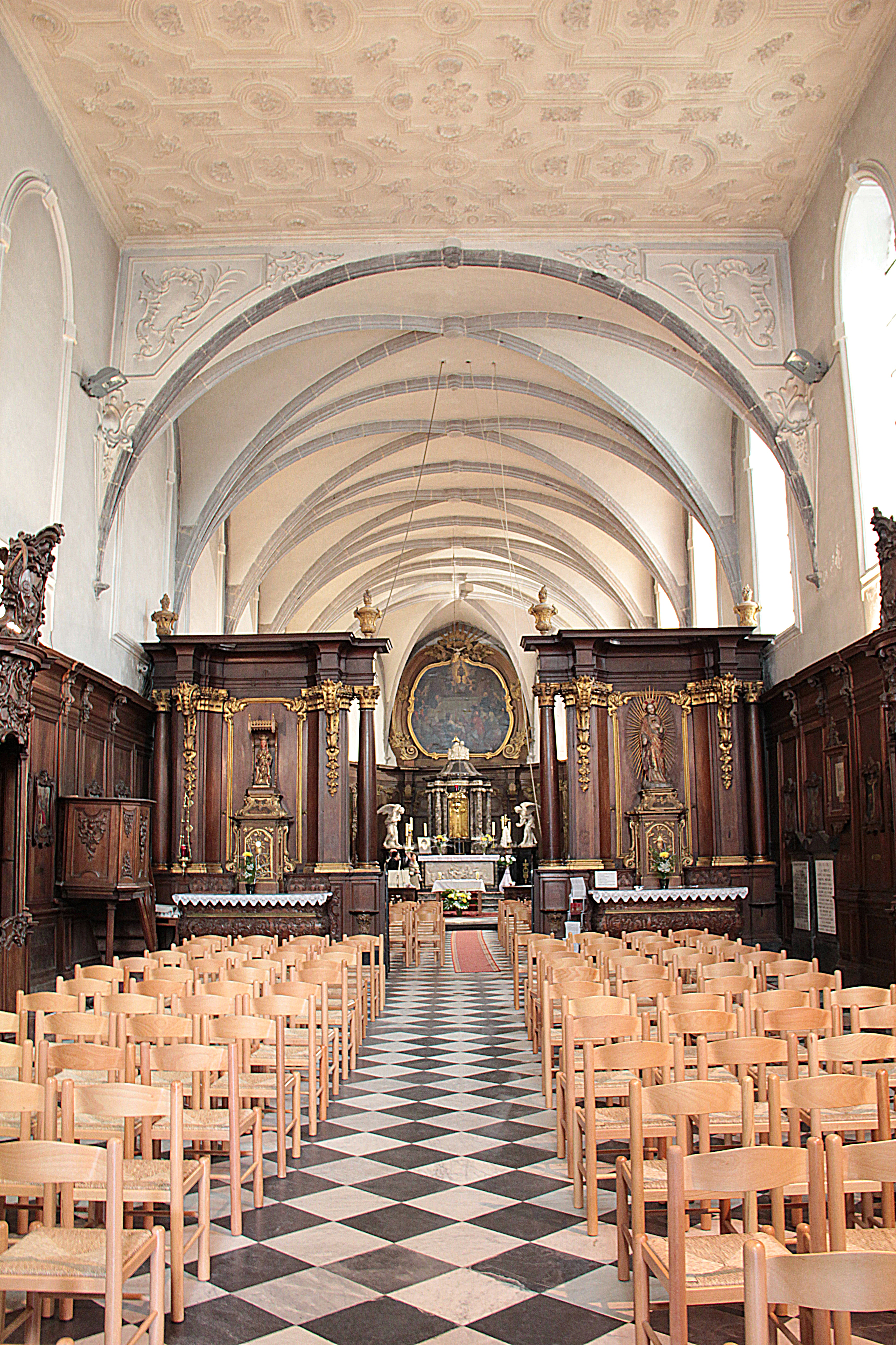 Bois-Seigneur-Isaac (Belgium), nave and choir of the Chapel of the "Saint-Sang" (Holy Blood) (XVIth century).